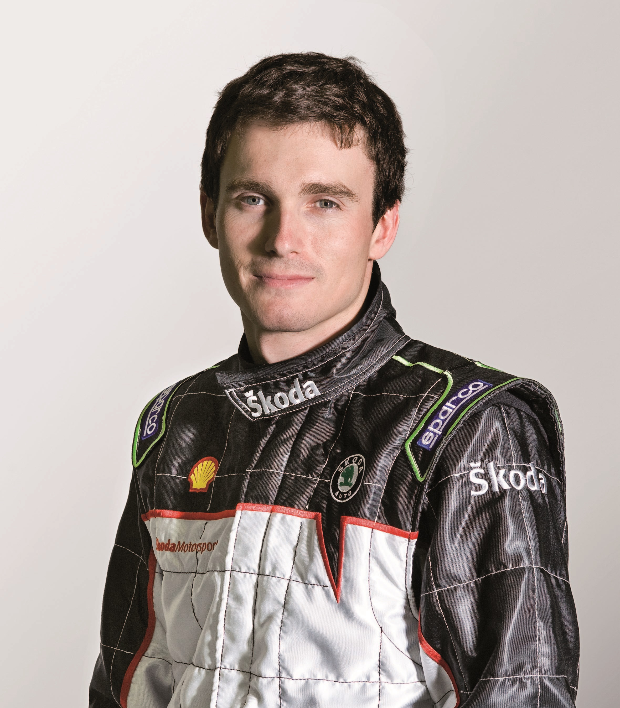 cropped version of File:Jan Kopecký 2008-12-19 001.jpg